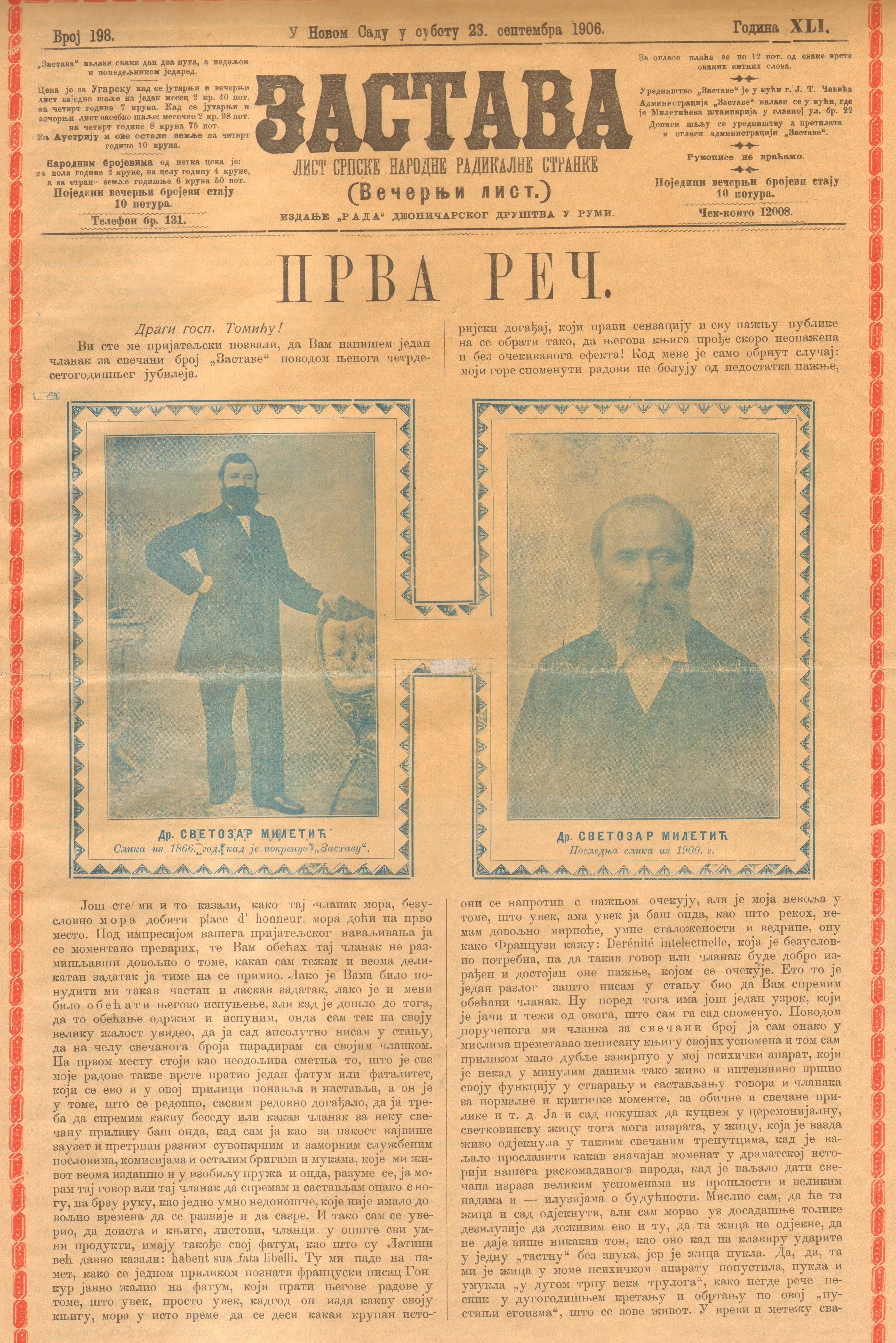 Front page of Serbian newspaper Zastava (1906)